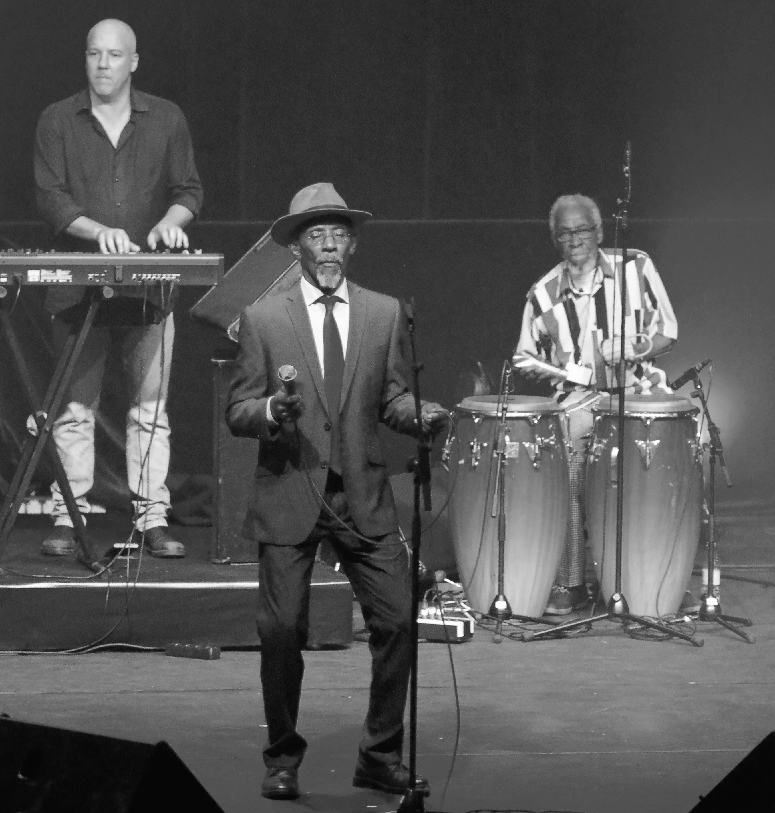 Linton Kwesi Johnson in concert in Brussels October 28 2017